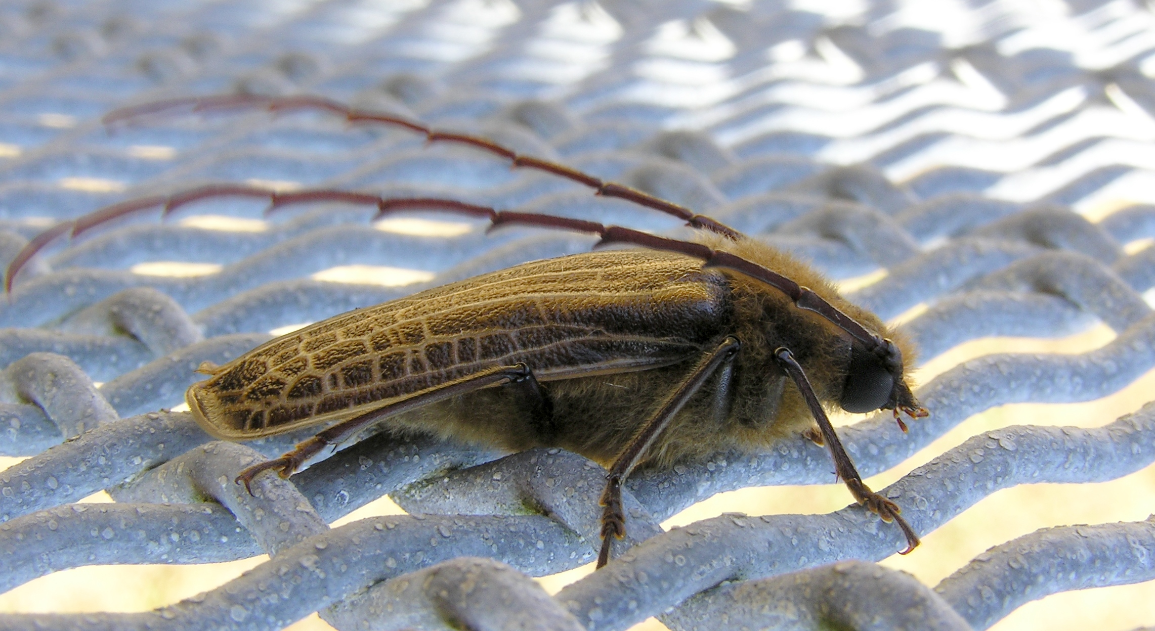 Huhu beetle, side view. Wellington, New Zealand. Background fence scale